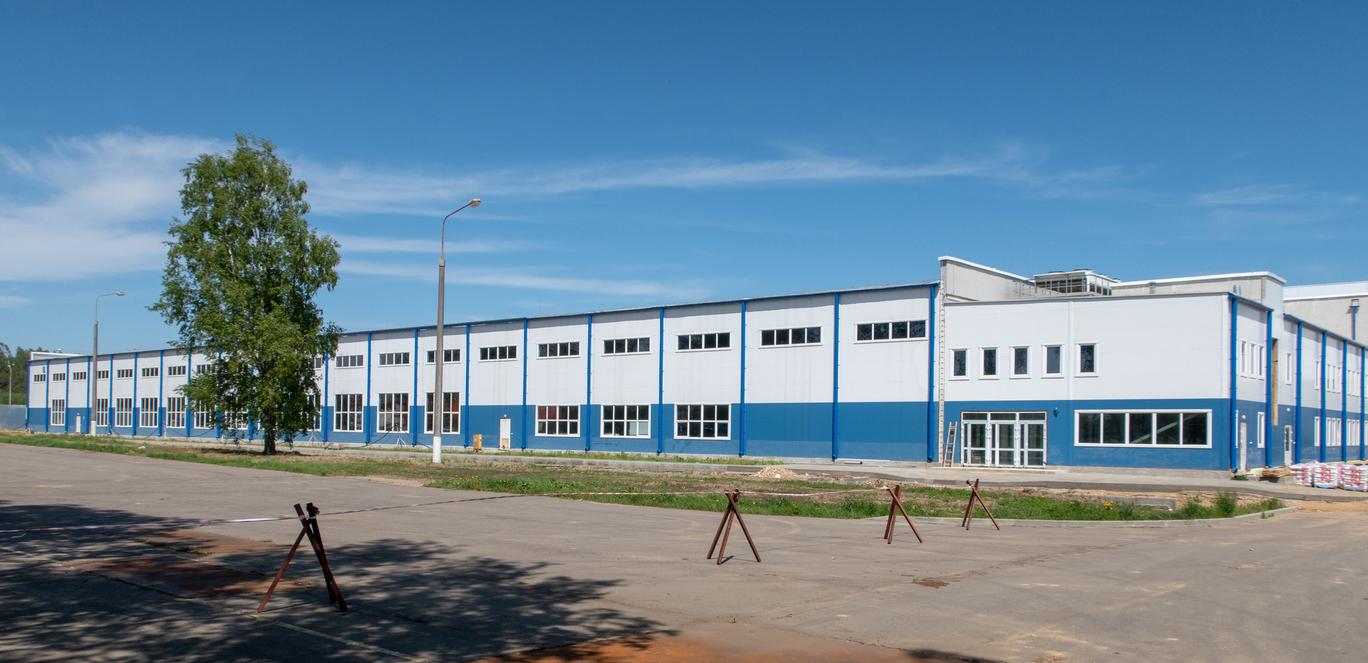 Car factory Unison (Minsk district, Belarus). Former Ford-Union joint venture